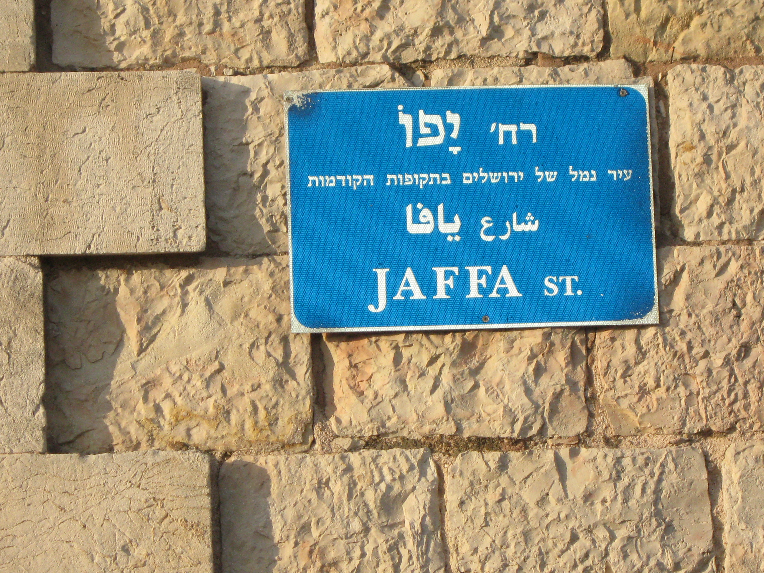 Jaffa Road, Jerusalem, reflective street sign. The inscription commemorates Jaffa as the "port city of Jerusalem in ancient times."